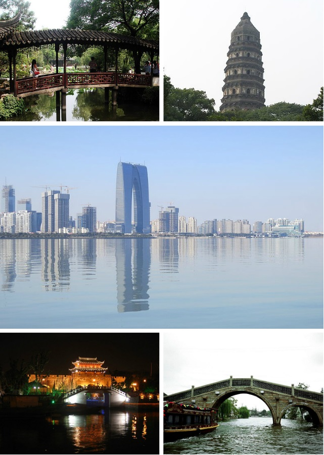 Photos of Suzhou, Jiangsu, China.